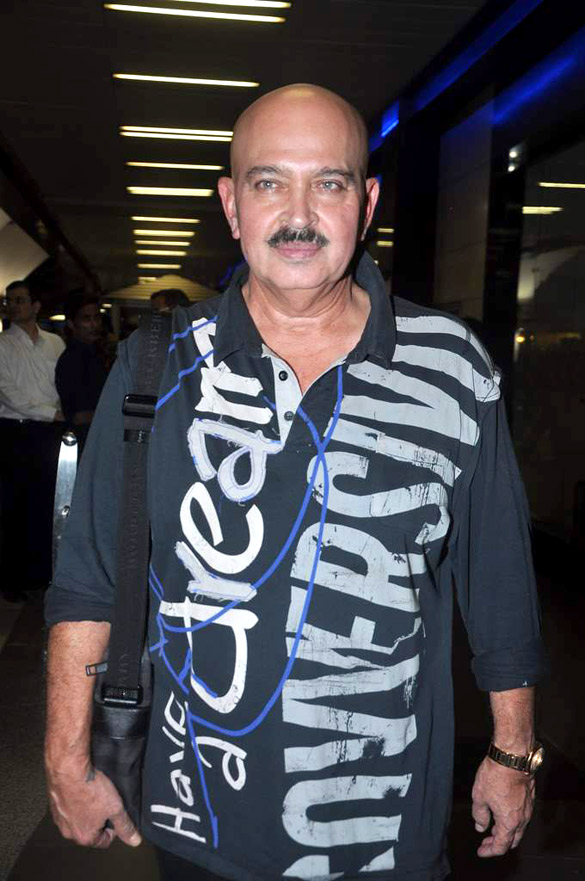 Rakesh Roshan returns from IIFA 2012